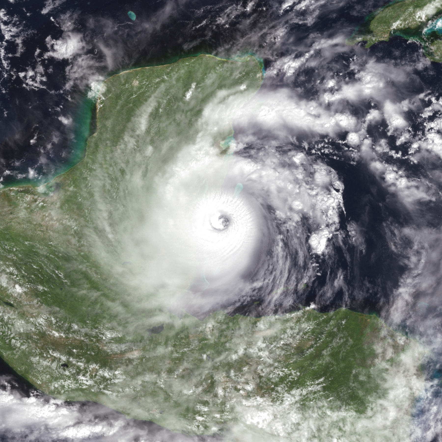 Hurricane Keith shortly after peak intensity off the coast of Belize on October 1, 2000